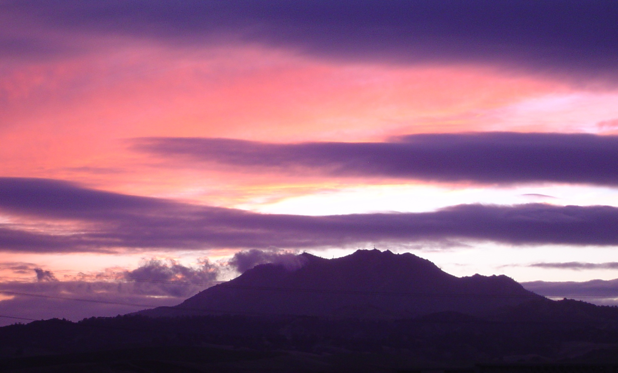 This is the view of Mt Diablo from my Antioch, Ca back yard